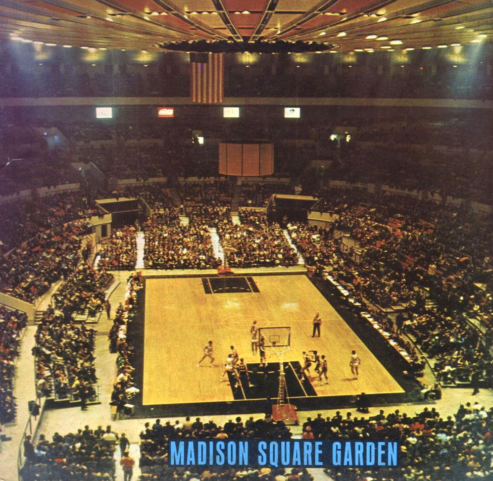 A basketball game at Madison Square Garden